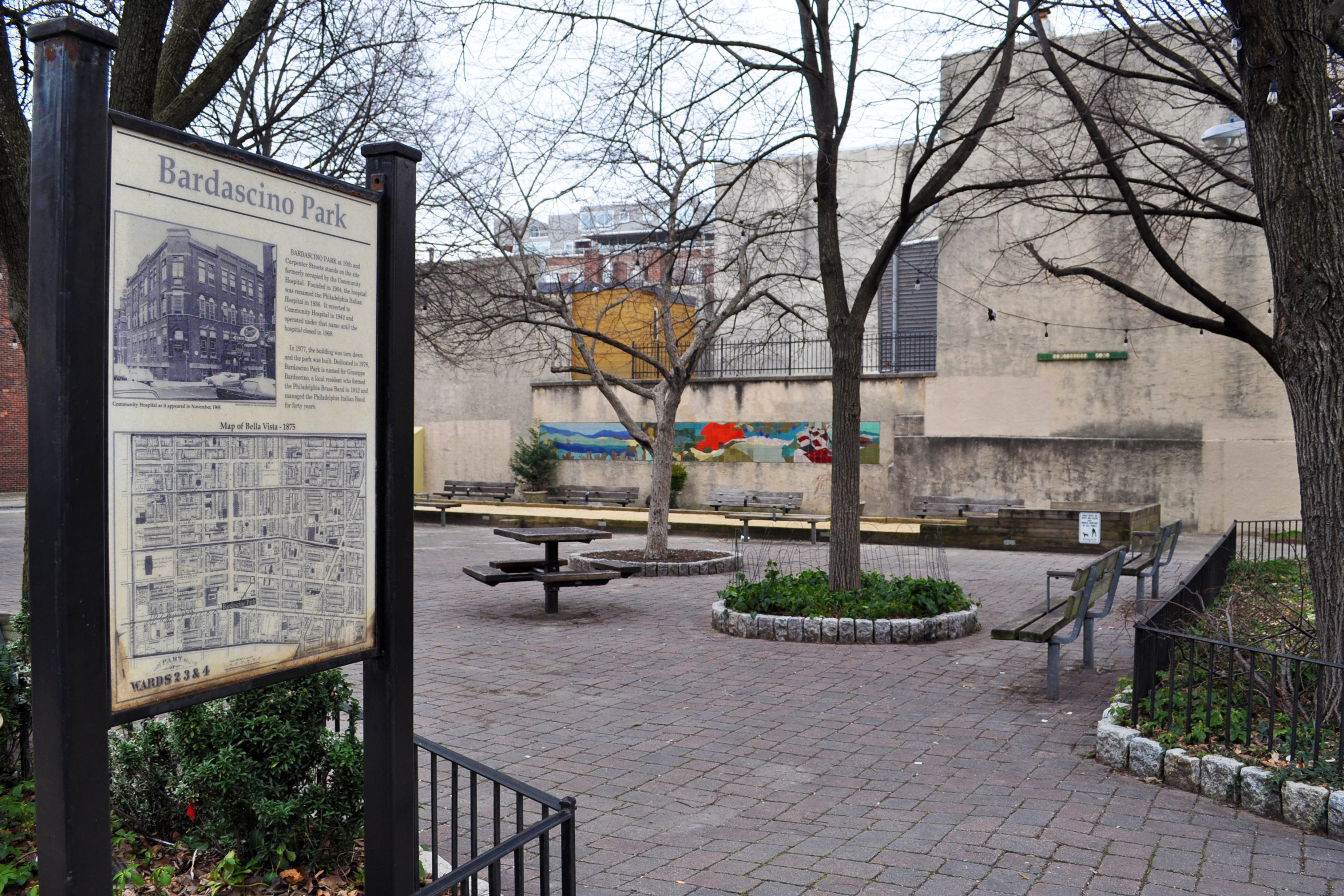 Bardascino Park 1000 S 10th St Philadelphia PA